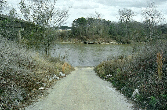 Photograph by Tim Kiser. A boat ramp along the Leaf River at Hattiesburg, 4 January 2004.